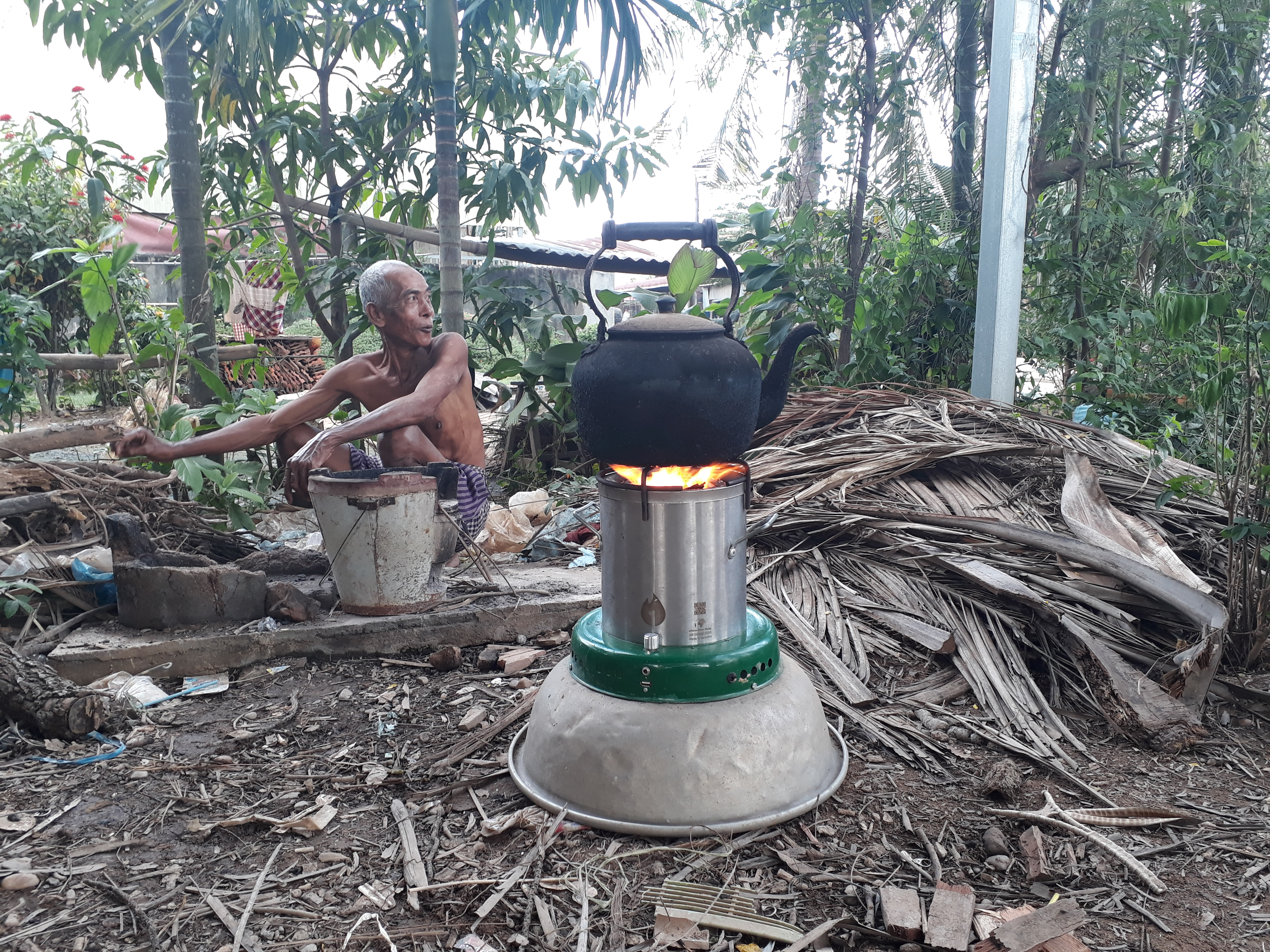 ACE One cooking in Cambodia